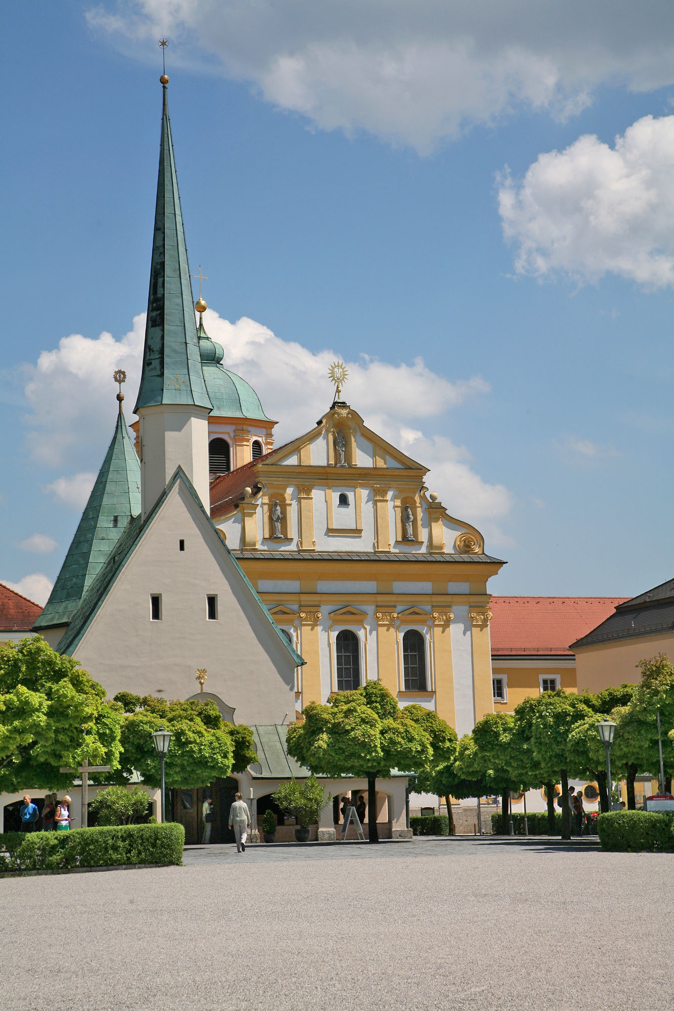 Gnadenkapelle (pilgrimage site) and St. Magdalena (baroque pilgrimage church) in Altötting, Germany.